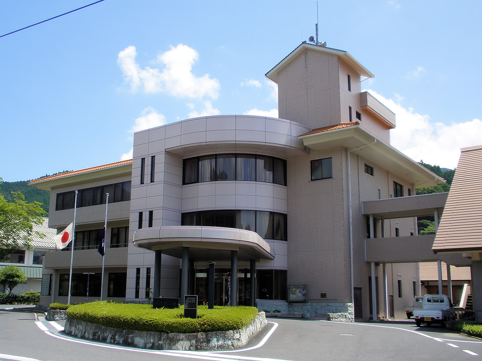 Tsuyama city office Aba branch Former Aba village office (1995.3 - 2005.2.27)